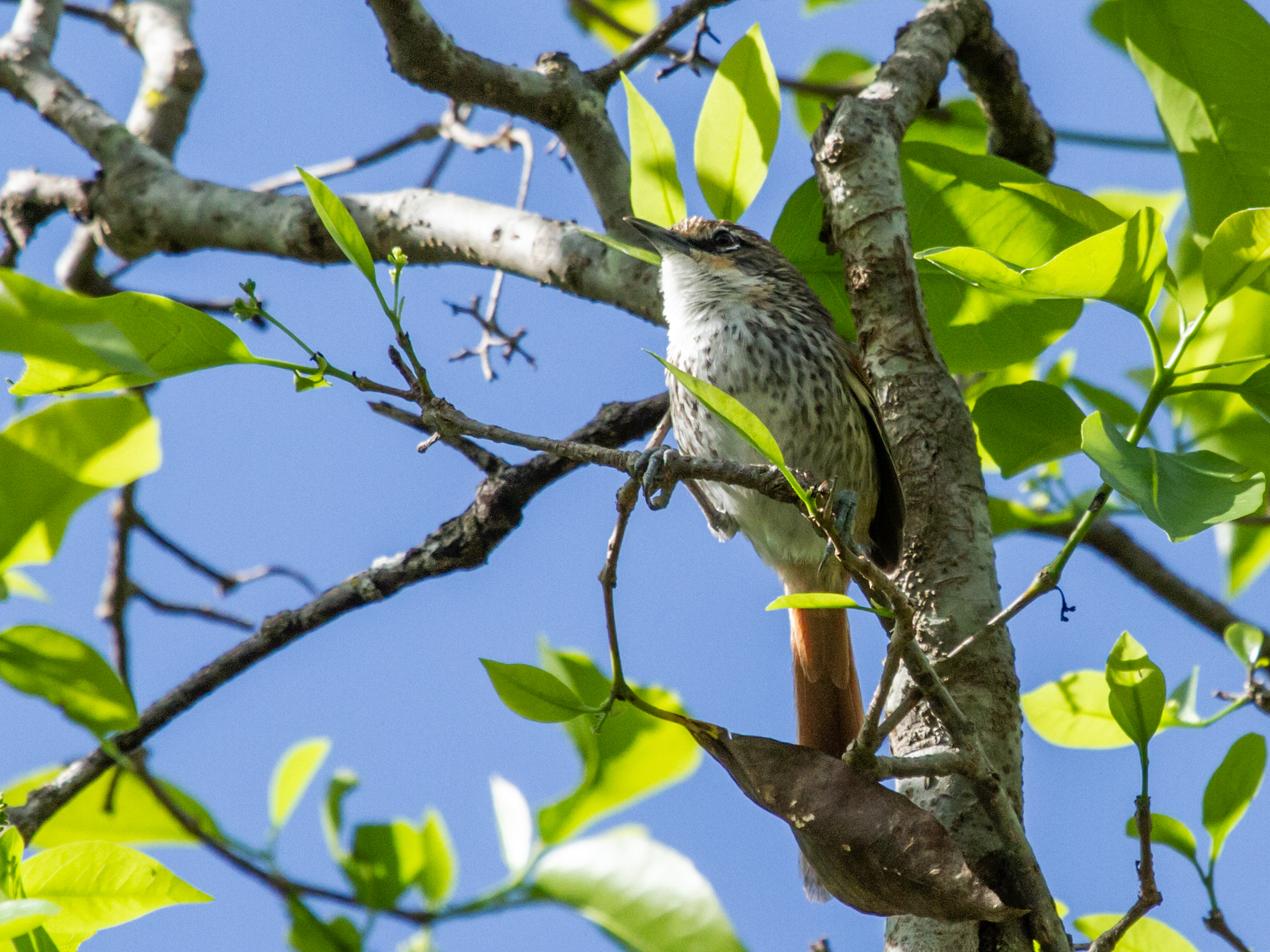 Necklaced Spinetail (ssp. chinchipensis) from Las Juntas, Cajamarca, Peru.